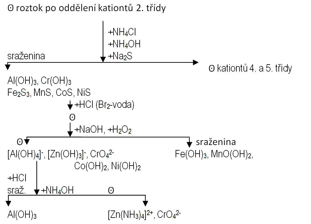 III. class of cationts